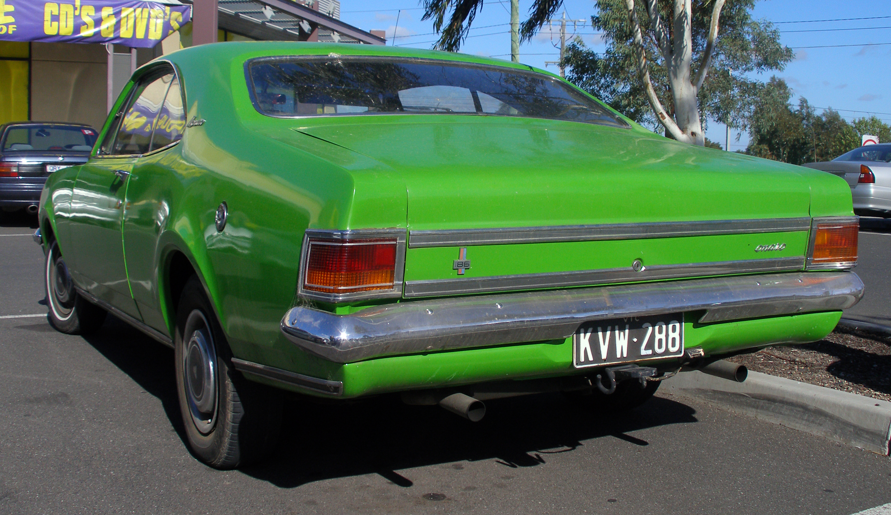 1970–1971 Holden HG Monaro coupe, photographed in Victoria, Australia.